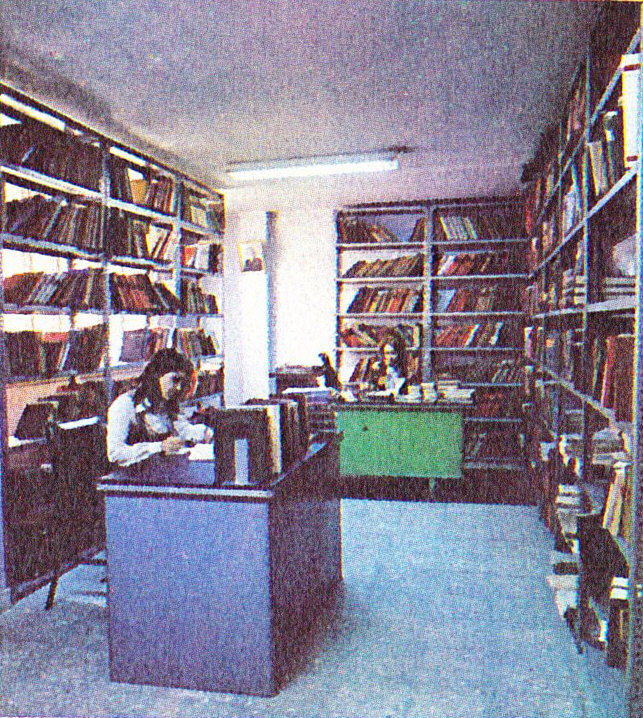 Library of the Iranian Cultur Foundation, Tehran, Iran